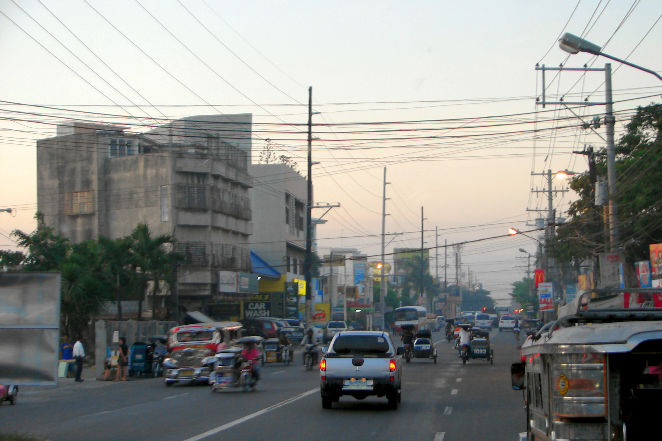 Tarlac City, Tarlac, Philippines